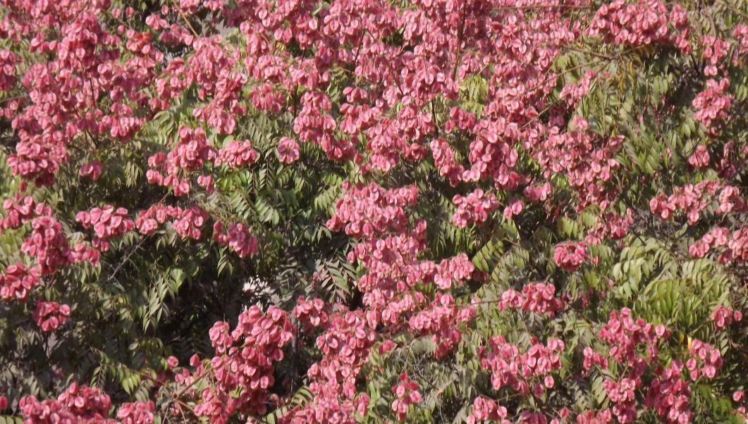 This photo taken at Cairo